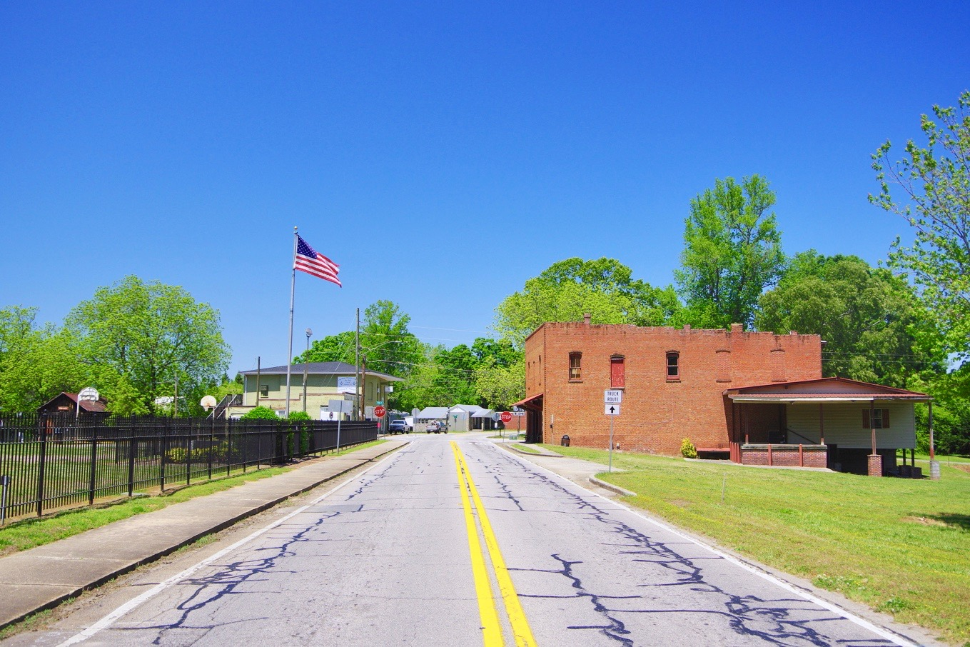 View along Main Street (Georgia State Route 284) in Clermont, Georgia, United States.